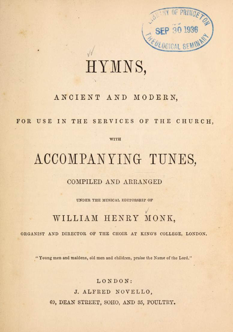 Hymns Ancient and Modern, for Use in the Services of the Church, with accompanying Tunes, first edition 1861